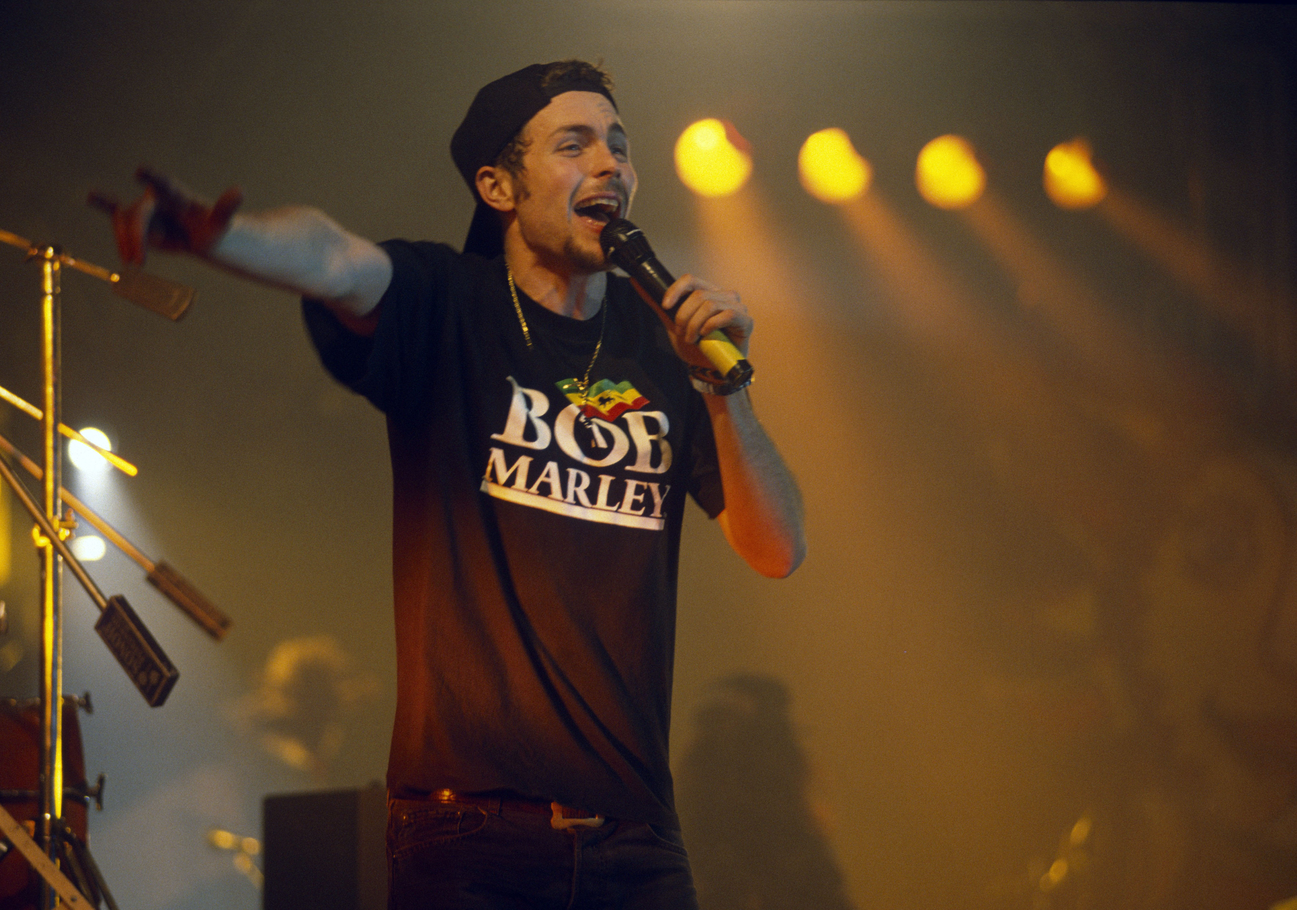 jovanotti alias lorenzo cherubini